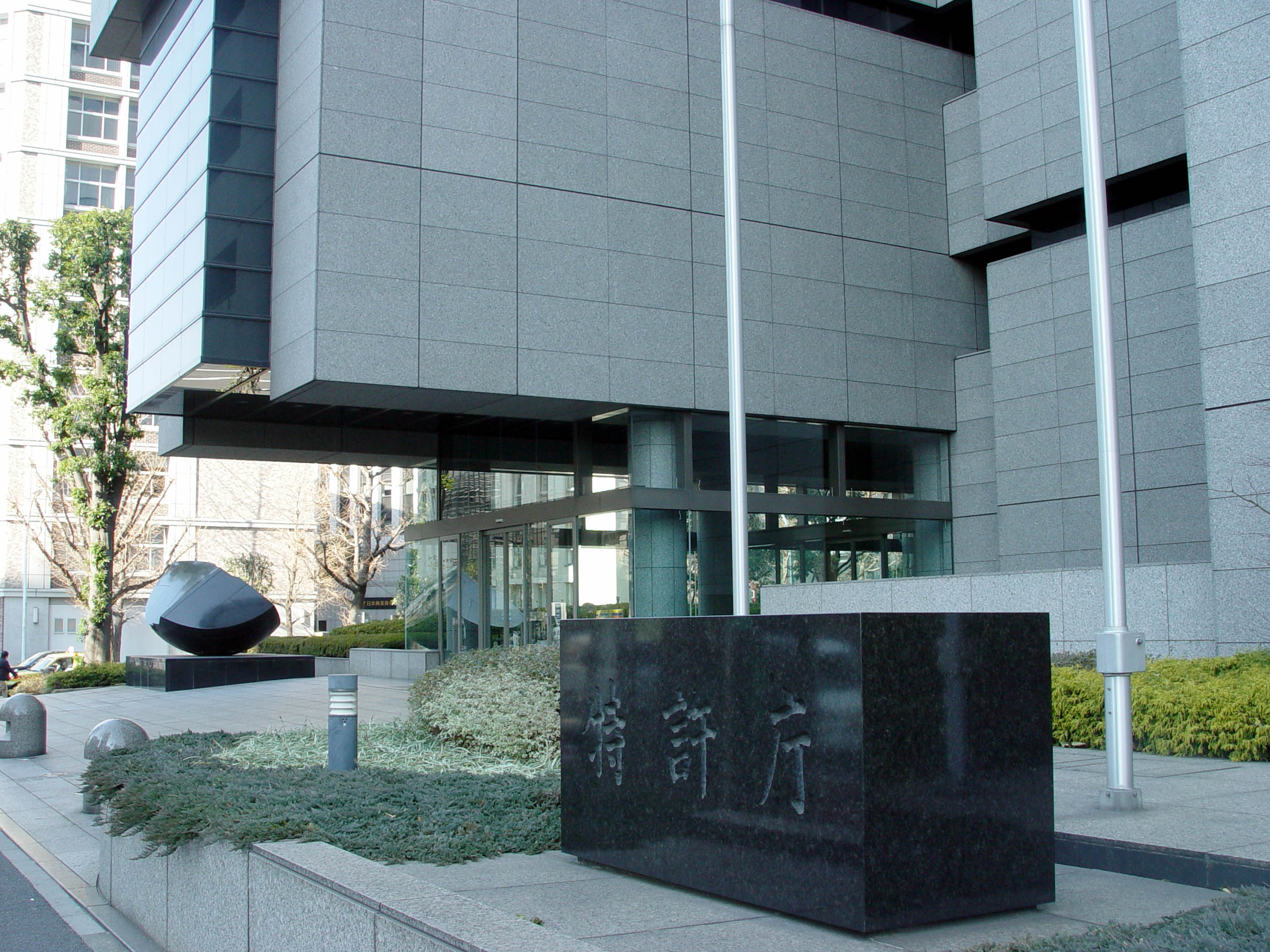 Public office building of Japan: Patent Office 庁舎： 特許庁